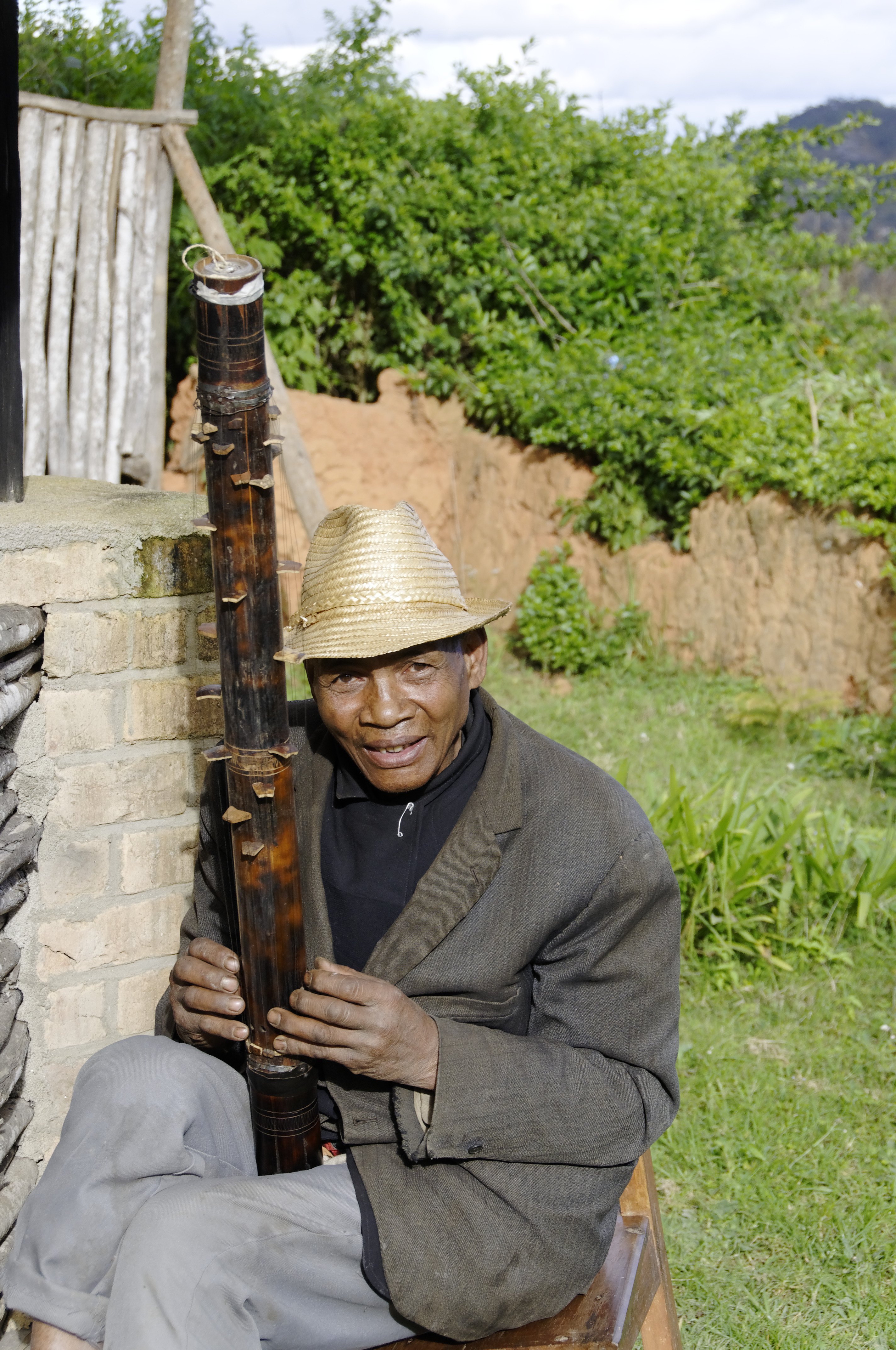 Player of the Valiha, a traditional Malagasy instrument. This is presented as part of lunch attractions in Ambohimahasoa.